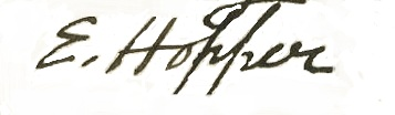 Signature of the American painter Edward Hopper, found in a letter dated 1951.